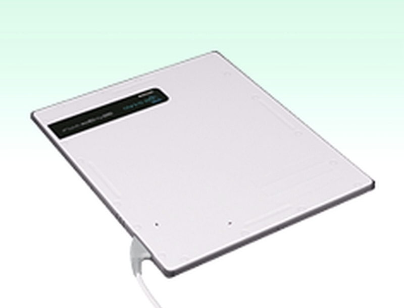 flat panel detector: a device to perform an X-ray radiography providing a digital image